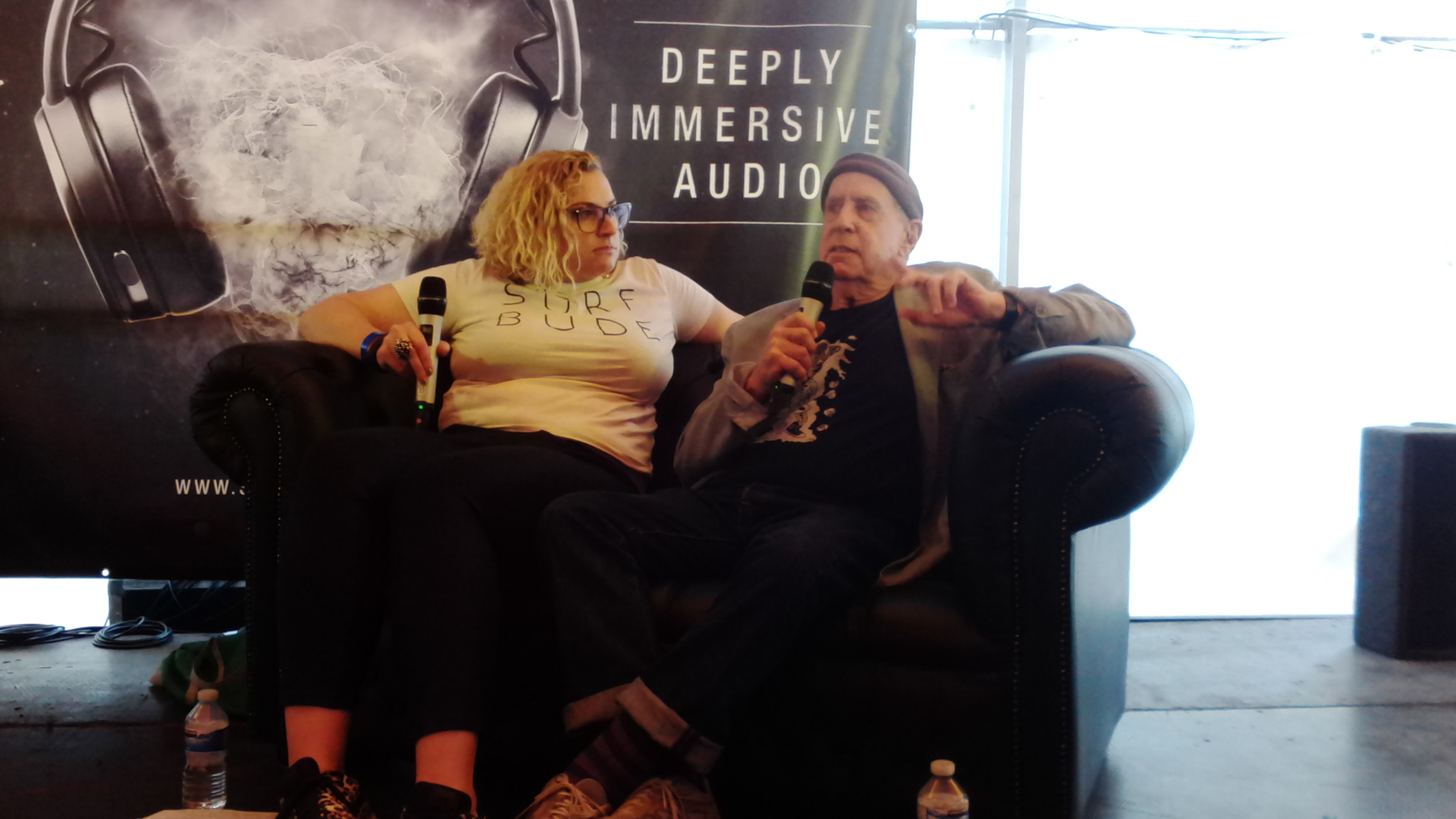 Danny Fields in conversation with Jennifer Otter Bickerdike at Liverpool Sound City 2017 (Tim Peaks Diner), Clarence Dock, Liverpool